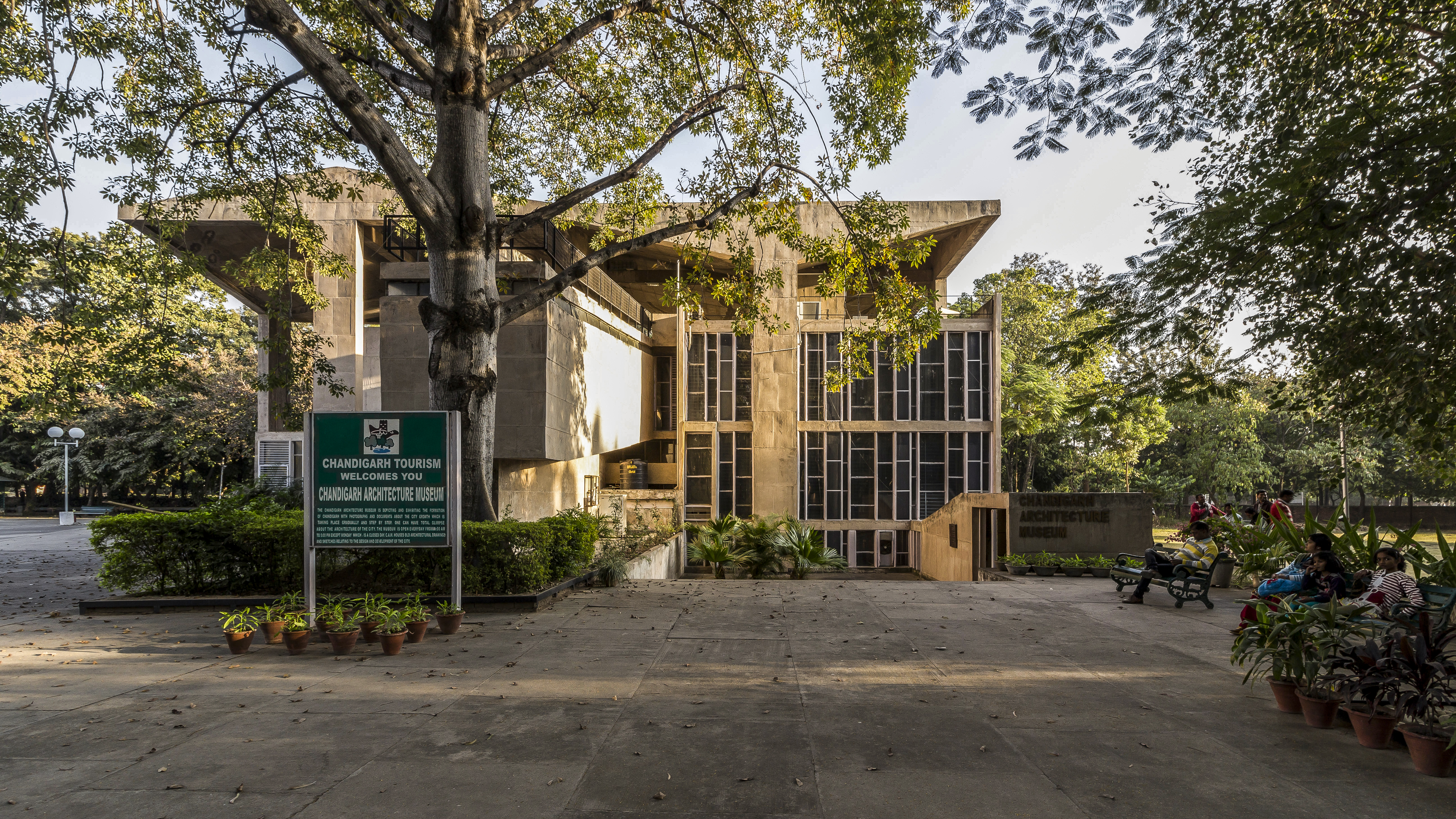 Chandigarh Architecture Museum, Sector 10-C